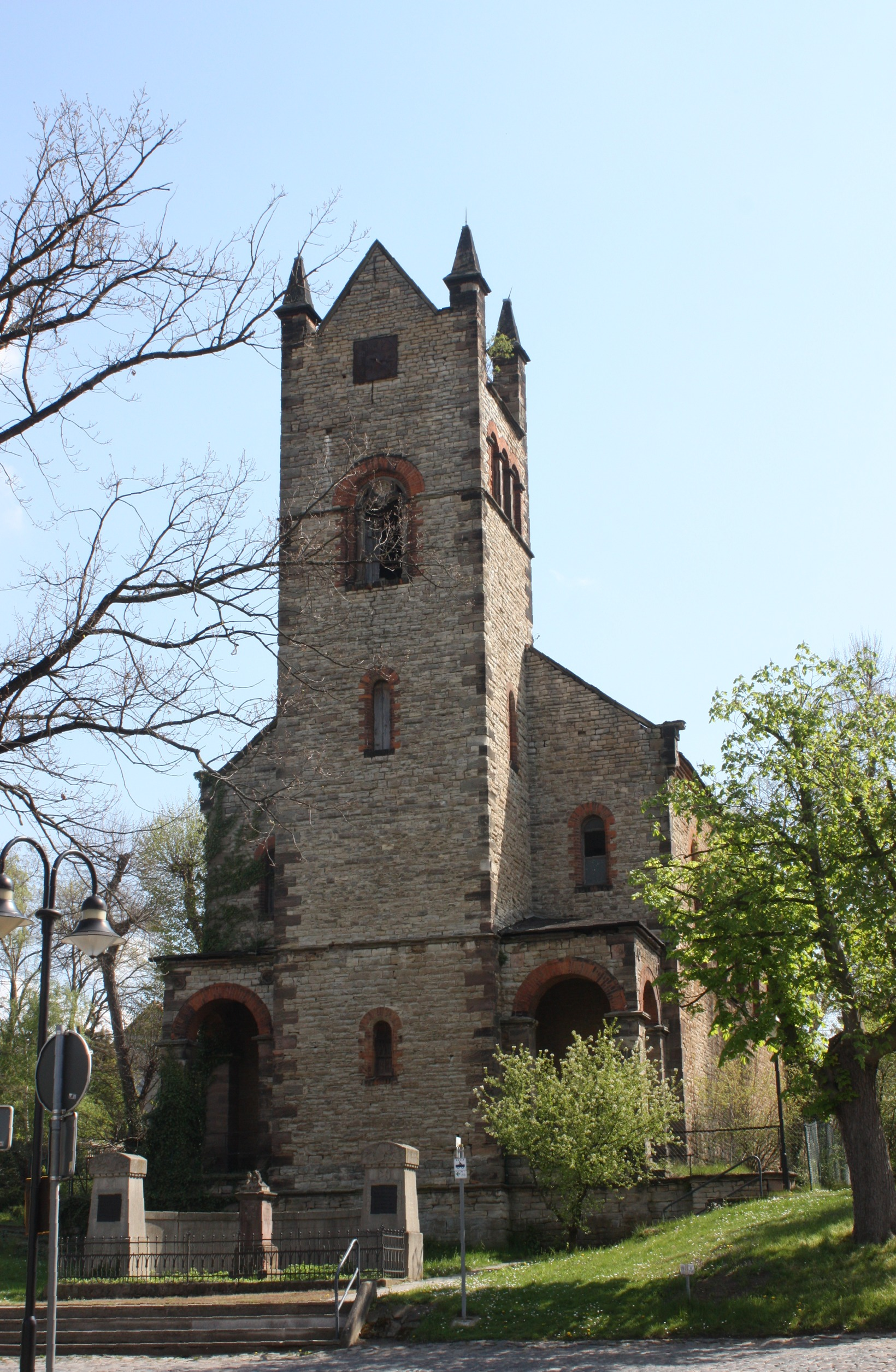 Kleinkorbetha (Weißenfels), the village church